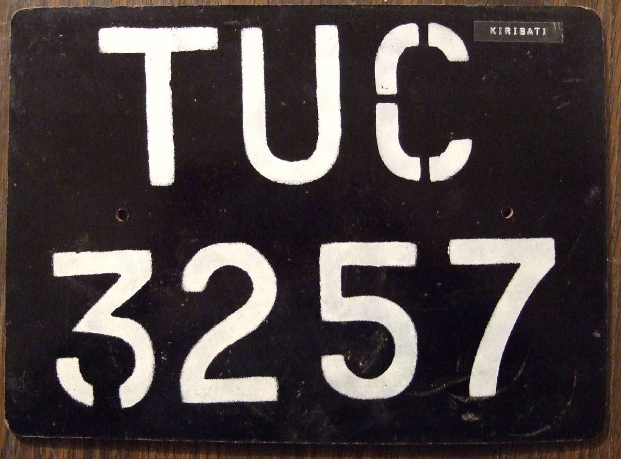 Plate is made of masonite, hand painted stencilled.